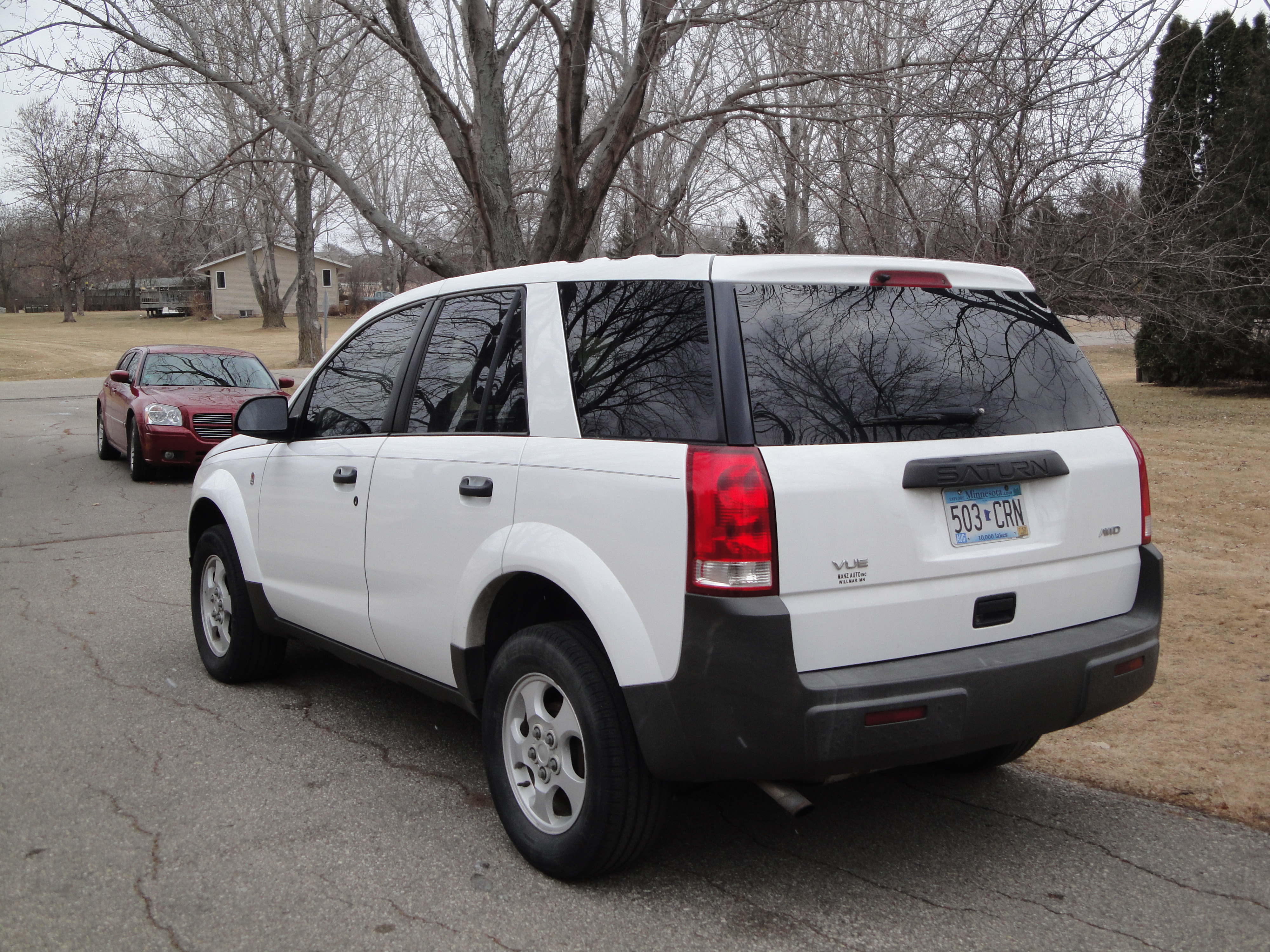 My sister's Vue has been DOA (Dead On Axles) twice by the notorious CVT transmission.